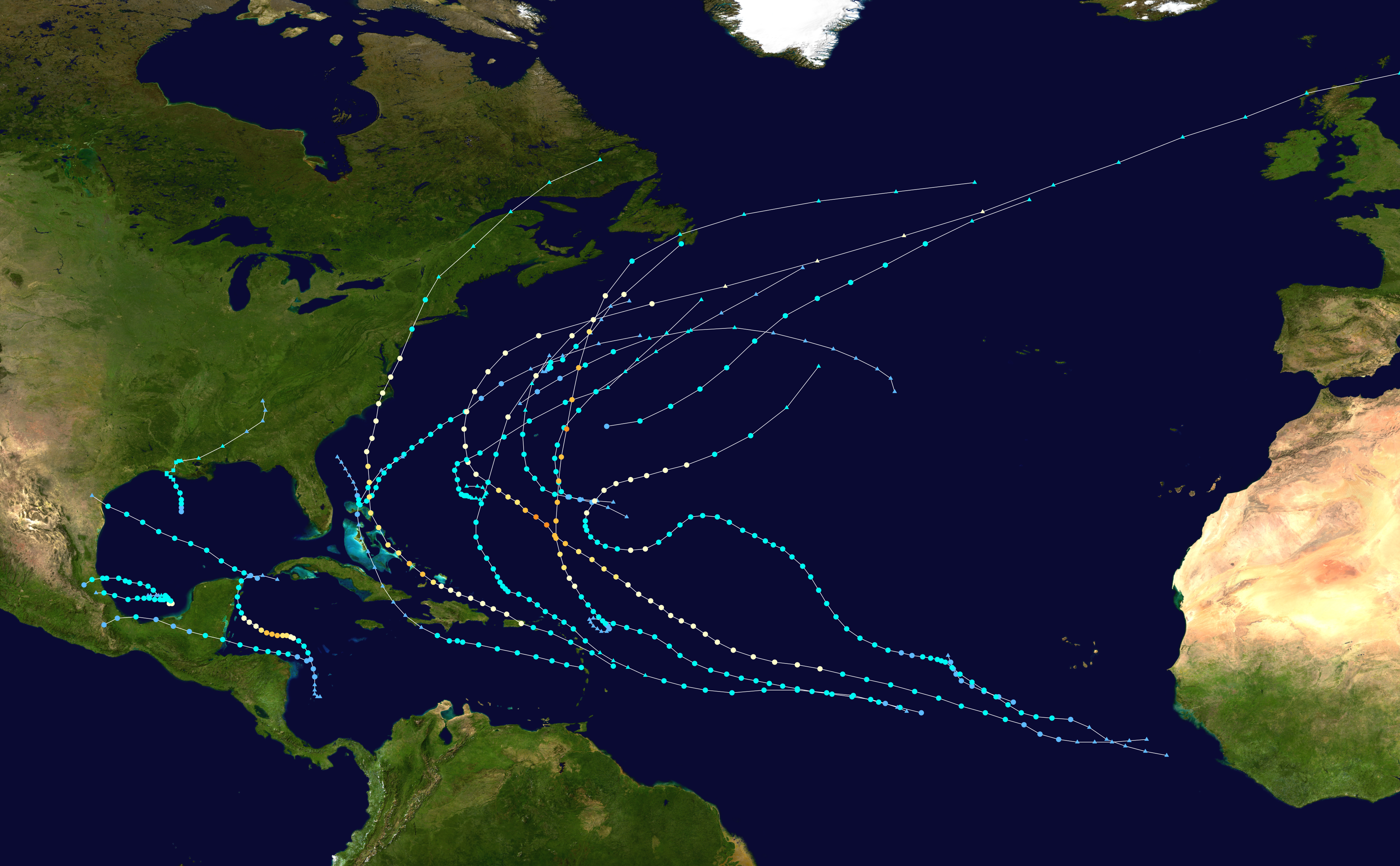 This map shows the tracks of all tropical cyclones in the 2011 Atlantic hurricane season. The points show the location of each storm at 6-hour intervals. The colour represents the storm's maximum sustained wind speeds as classified in the Saffir-Simpson Hurricane Scale (see below), and the shape of the data points represent the type of the storm. Saffir–Simpson scale Tropical depression≤38 mph≤62 km/h Category 3111–129 mph178–208 km/h Tropical storm39–73 mph63–118 km/h Category 4130–156 mph209–251 km/h Category 174–95 mph119–153 km/h Category 5≥157 mph≥252 km/h Category 296–110 mph154–177 km/h Unknown Storm type Tropical cyclone Subtropical cyclone Extratropical cyclone / Remnant low / Tropical disturbance / Monsoon depression